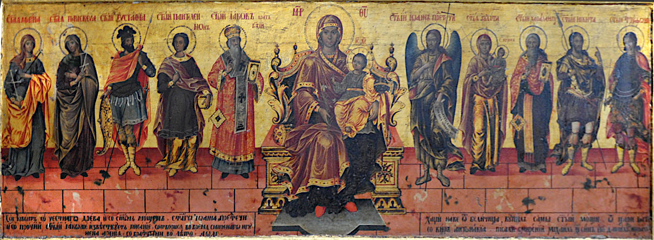 Bigorski Monastery reliquary cover interior